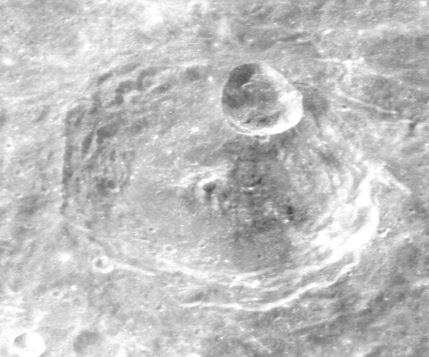 Oblique view of Hahn crater, on the moon. Taken by Apollo 16 panoramic camera during Trans-Earth Injection. Brightness and contrast adjusted in GIMP.